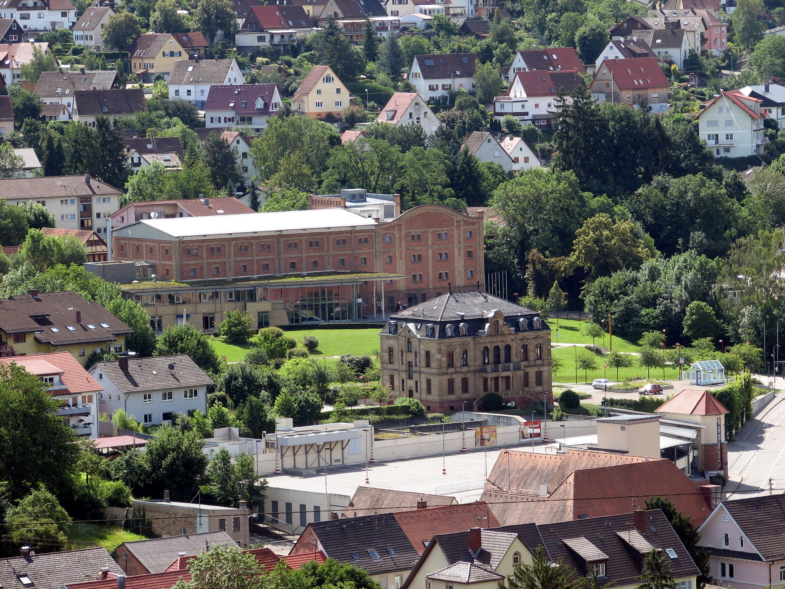 Old malthouse (backgrount) and Villa Hübner (middleground) in Mosbach